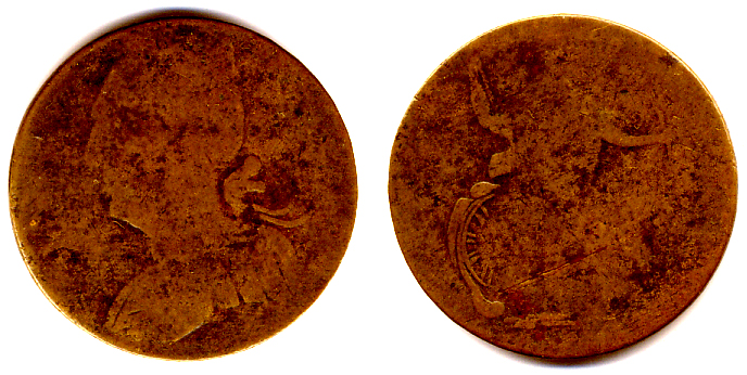 Obverse and reverse image of the Blacksmith Token catalogued as Wood-13 and BL-9.